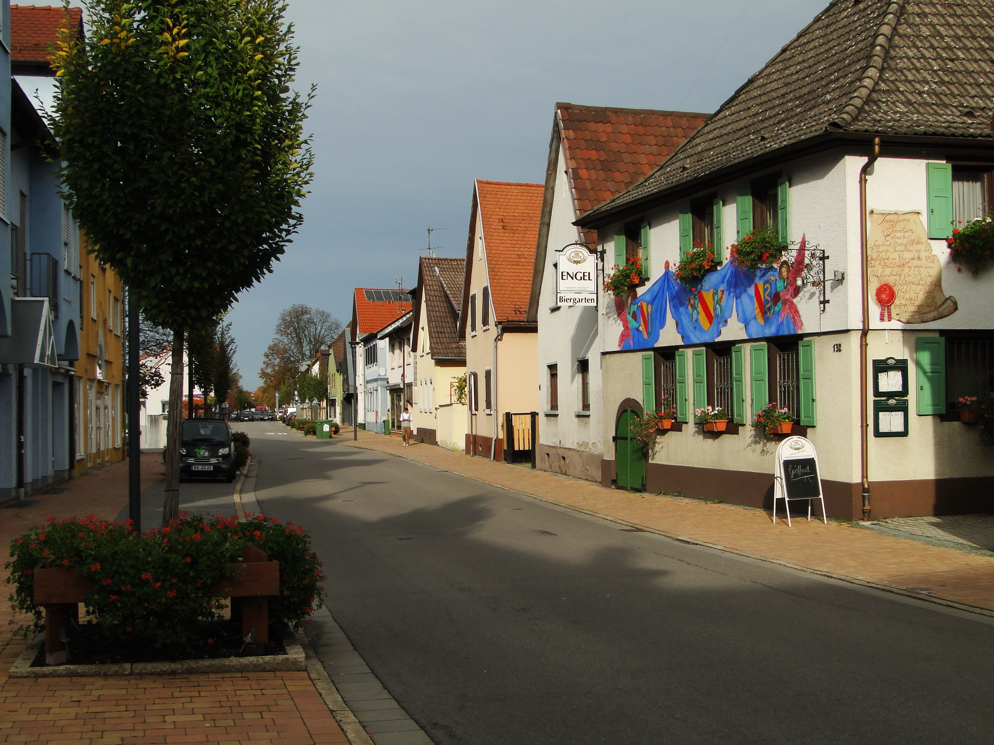 Durmersheim /Germany), main street with the inn "Engel"